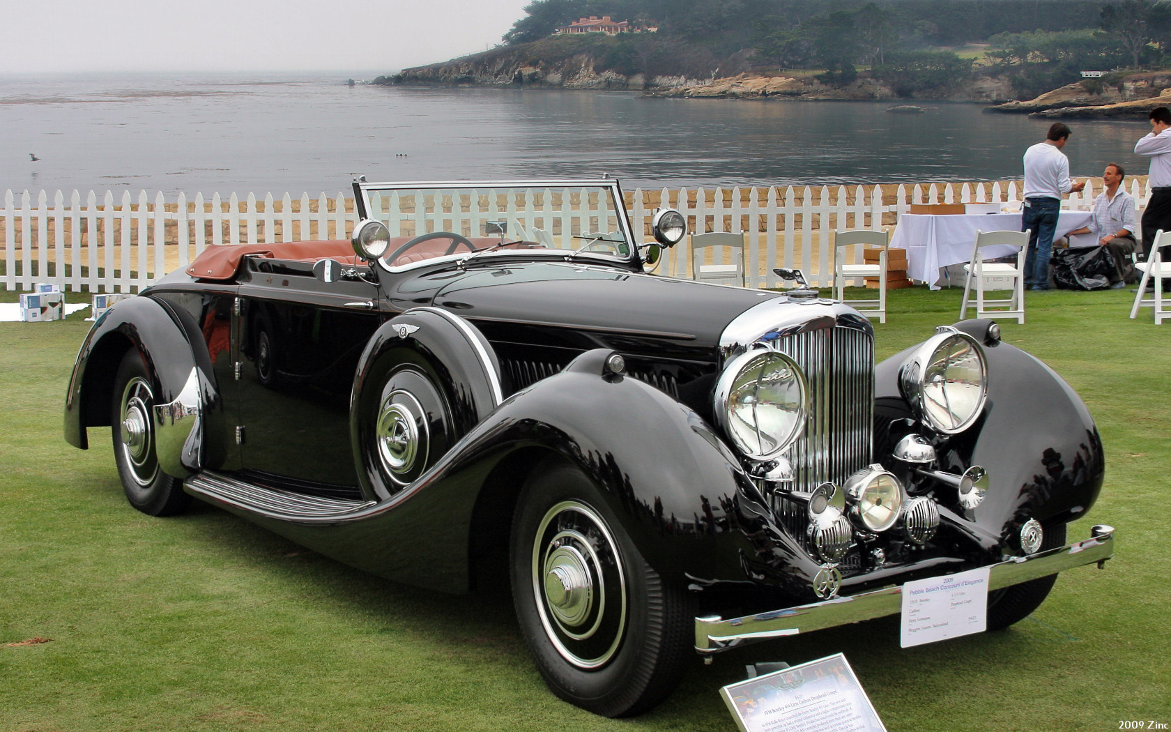 Pebble Beach Concours d'Elegance, Aug 16, 2009